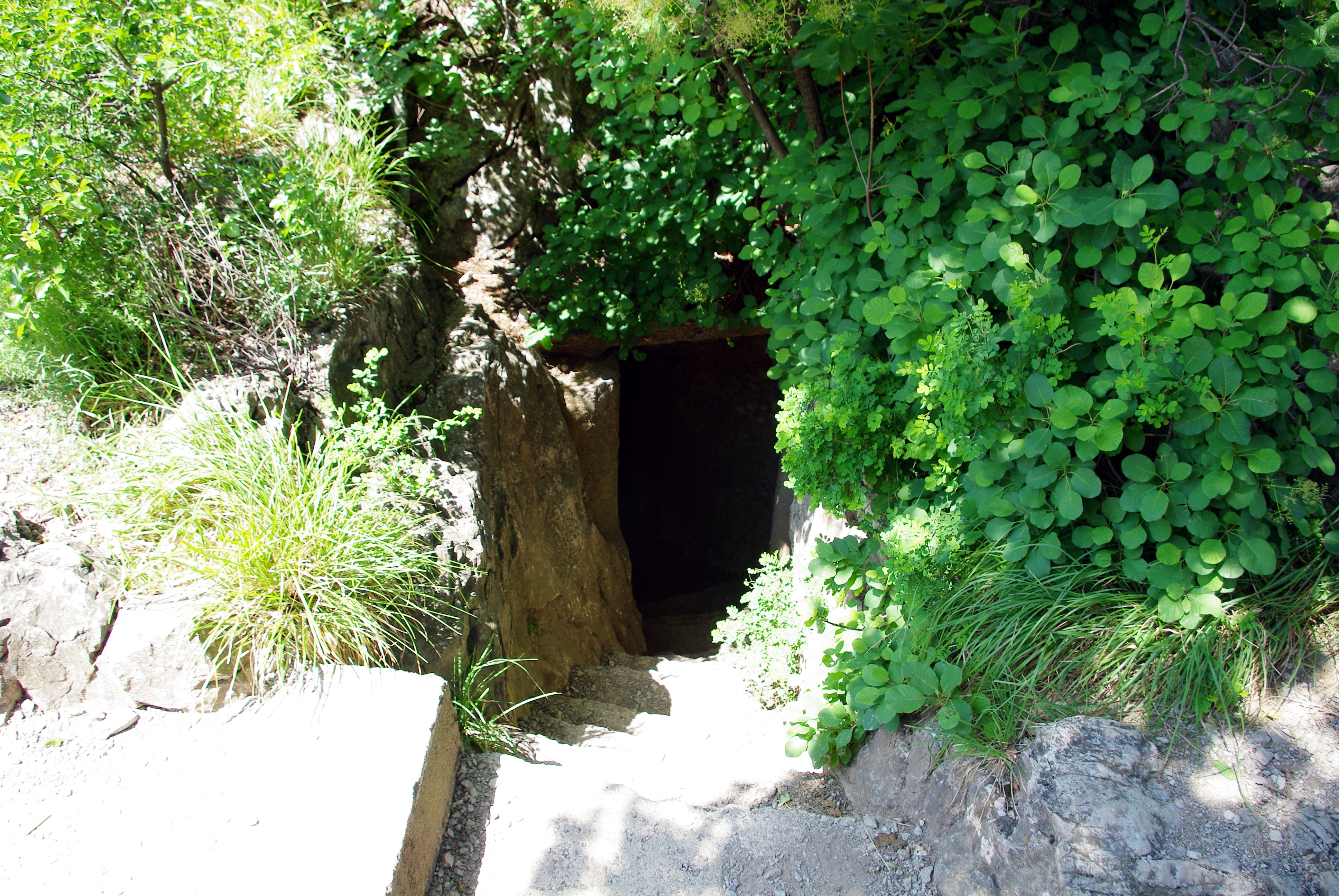 Bunker entrance at the Rilke trail, Sistiana, TS, Italy